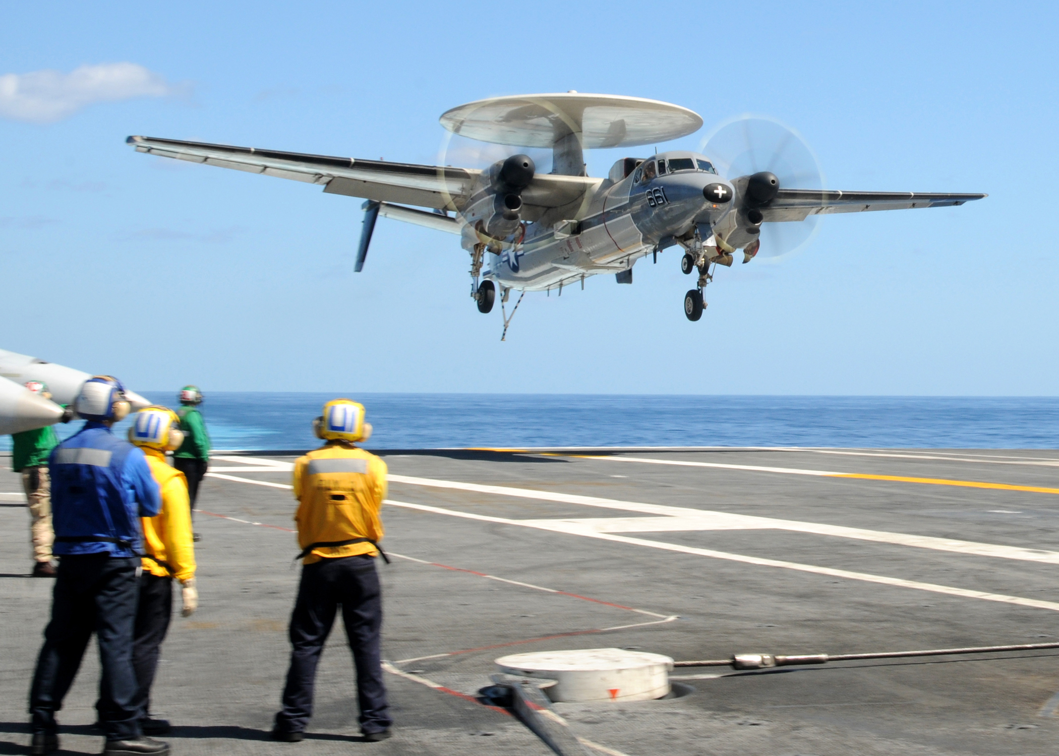 ATLANTIC OCEAN (Sept. 22, 2010) An E-2C Hawkeye assigned to Carrier Airborne Early Warning Squadron (VAW) 120 lands aboard the aircraft carrier USS George H.W. Bush (CVN 77). George H.W. Bush is conducting training operations in the Atlantic Ocean. (U.S. Navy photo by Mass Communication Specialist Seaman Kevin J. Steinberg/Released)